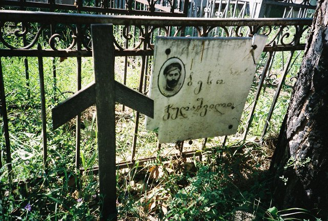 Vissarion (Beso) Ivanovich Jughashvili's grave in Telavi, Georgia.